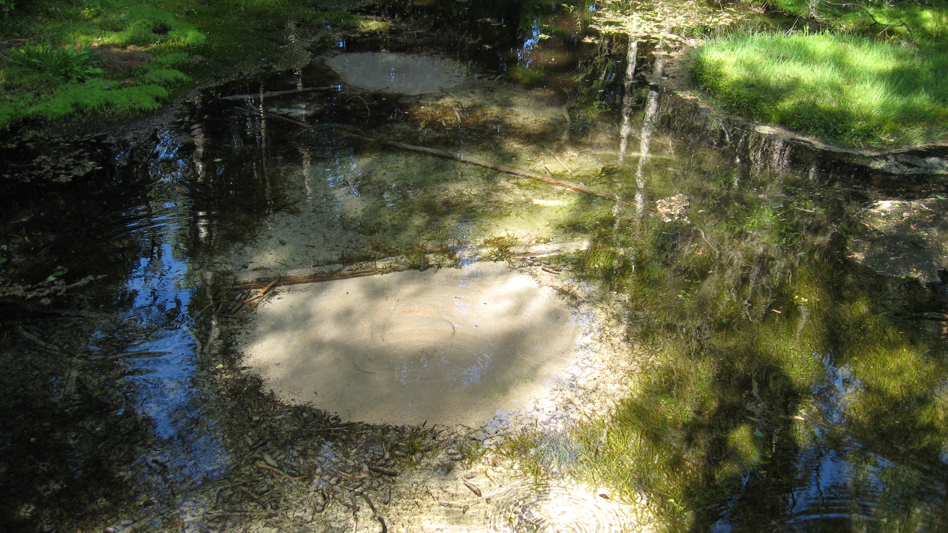 A spring in Lauhanvuori National Park, Isojoki, Finland.